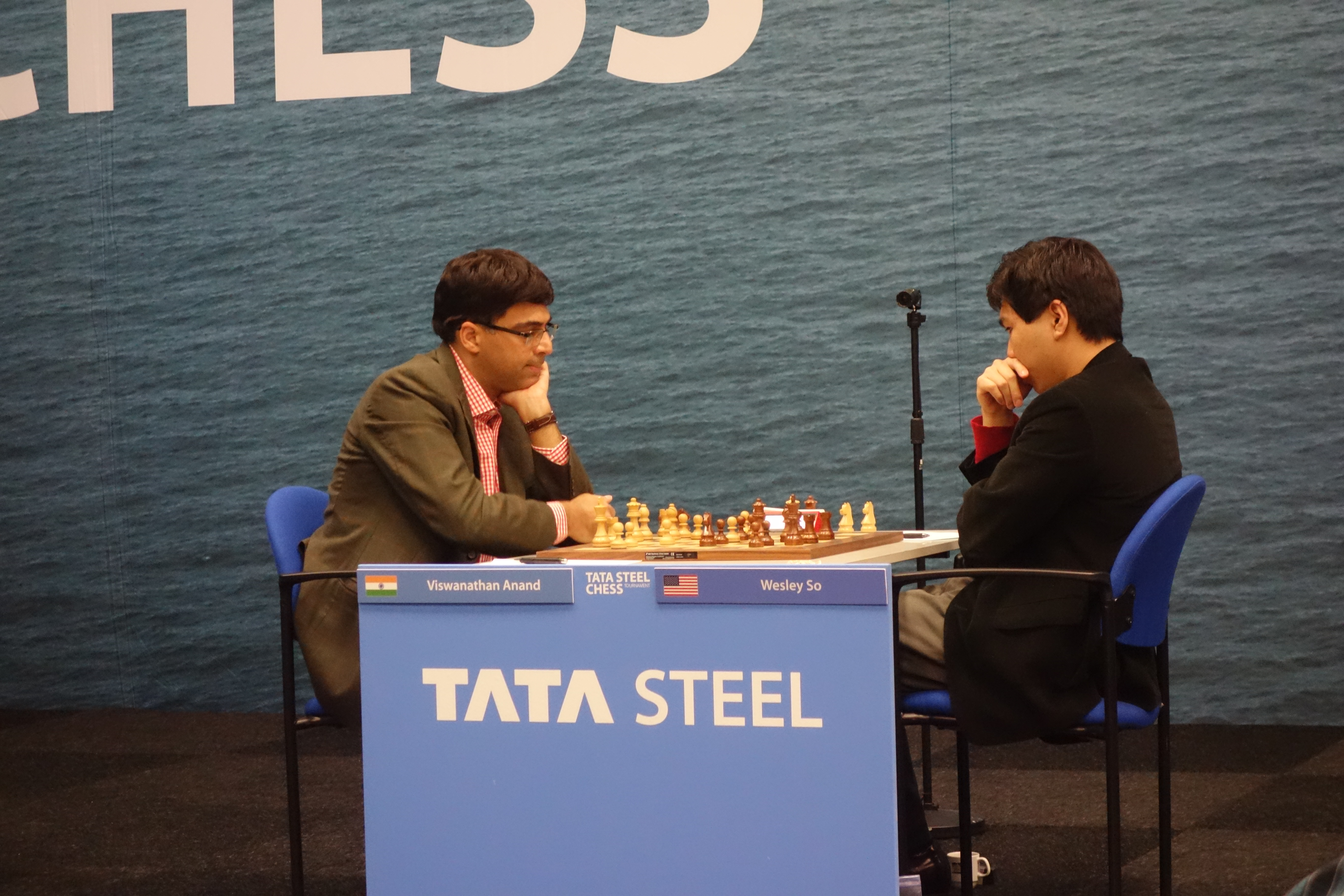 Tata Steel chess tournament 2018, Wijk aan Zee. Vishny Anand vs. Wesley So.